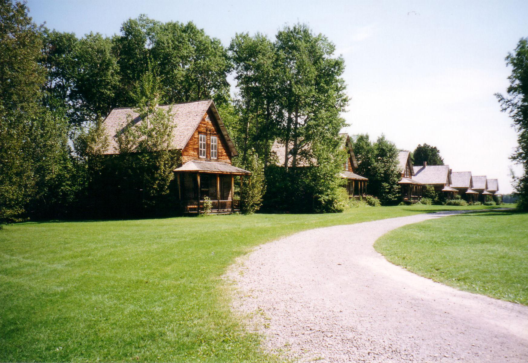 Description: Lost house in Val Jalbert City in Quebec Author: Juju ( WebSite